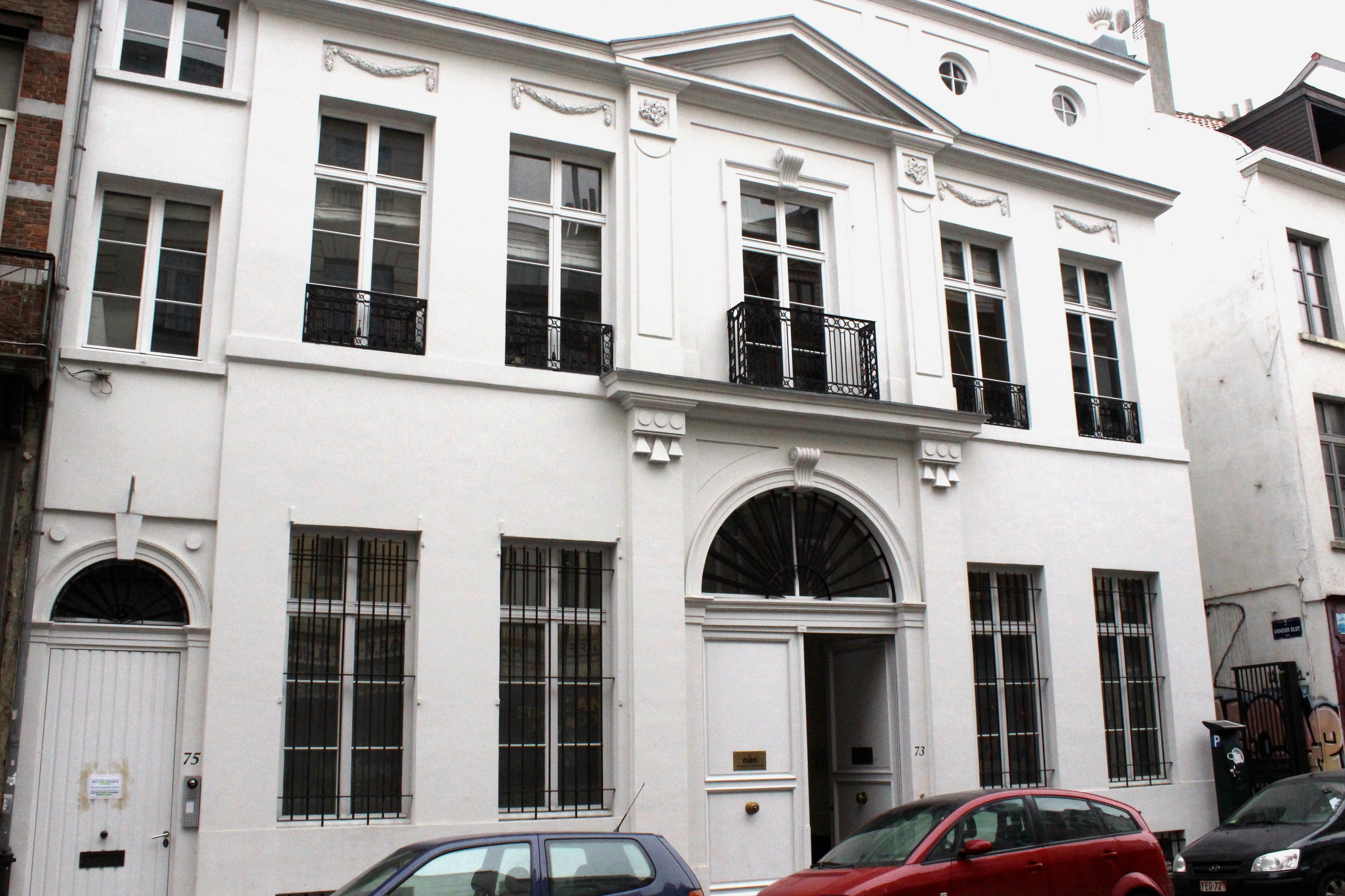 Rue de Laeken 73, Brussels, Belgium Former Hôtel Dewey 1760-1770). Neoclassical style. Belgian Museum of Freemasonry.